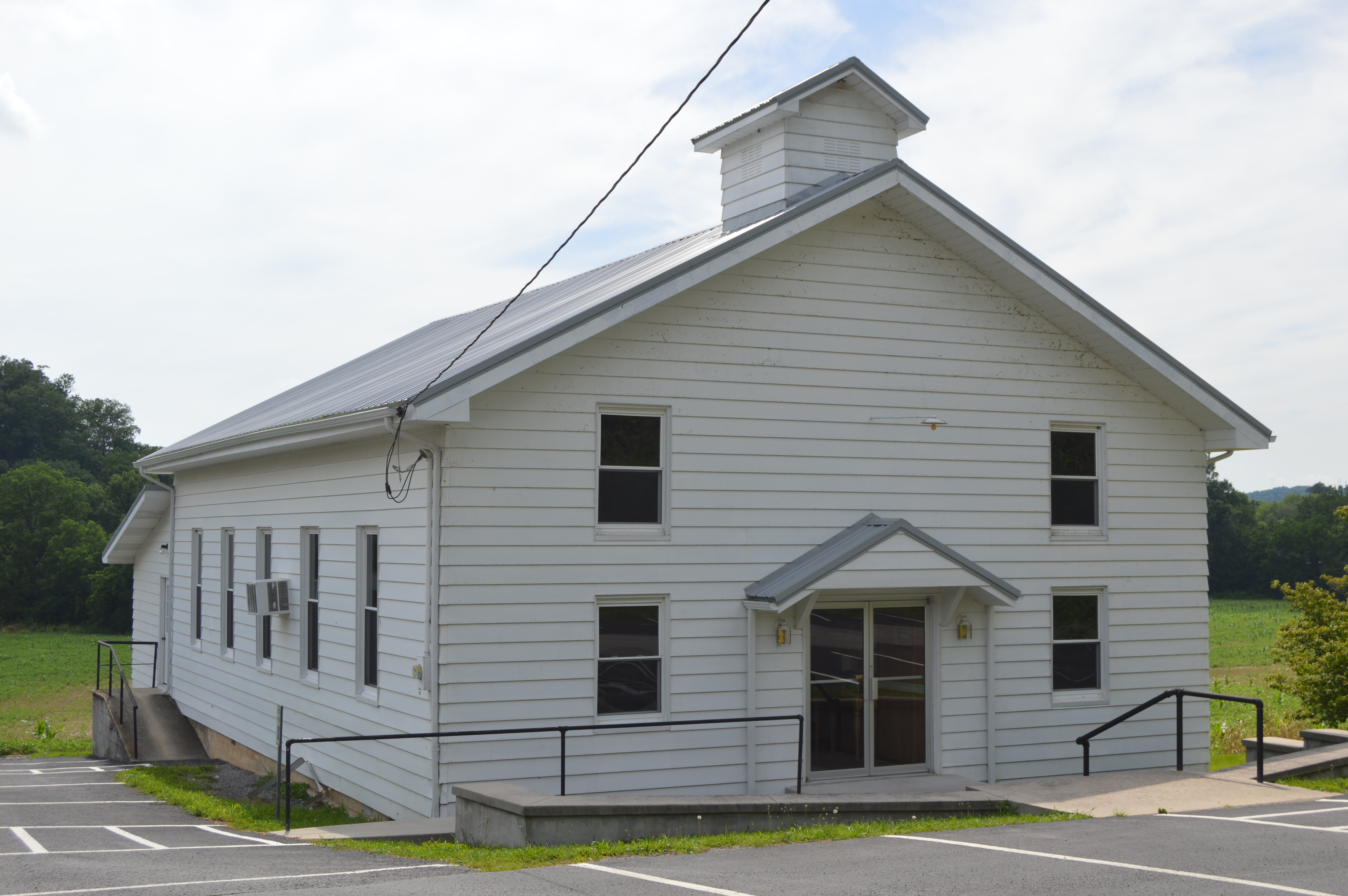 Front and southern side of Liberty United Methodist Church, located off Bow Road at Bow in Cumberland County, Kentucky, United States.